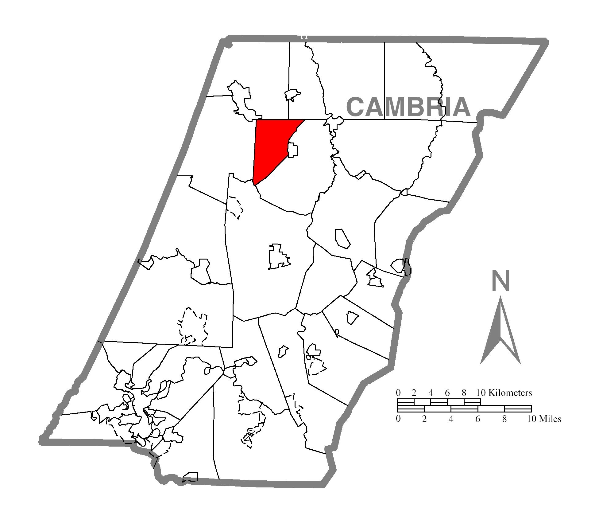 A map of Cambria County showing West Carroll Township, Pennsylvania (alternate) highlighted on the map.